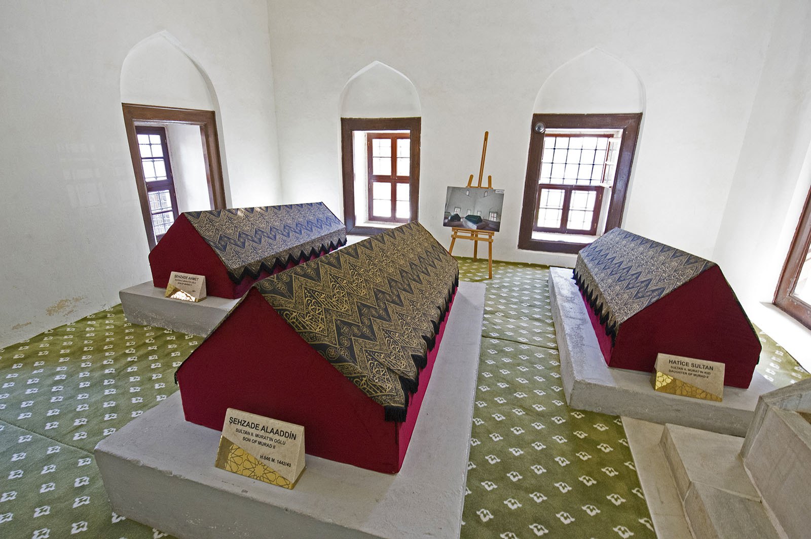 This mausoleum was built in 1481 by Mehmet the Conqueror for his father, Murat II. According to the latter’s last will this structure was not covered to let the rain in, and with a surrounding gallery for disciples to memorize the Qur’an. Without using a sarcophagus the sultan’s body was buried directly in the soil, and he is the sole one buried here. The door wings are of exceptional craftsmanship. The columns’ pedestals and capitals are both of the Byzantine era. Bonded to the mausoleum’s east wall there’s the mausoleum of Sultan Alaaddin, Prince Ahmet (sons of Murat II) and of Hatice Sultan and Princess Hatun, his daughters. During a 2013 restoration 19th century baroque decorations, plastered and painted over the original ones, were removed and the original decoration was restored.